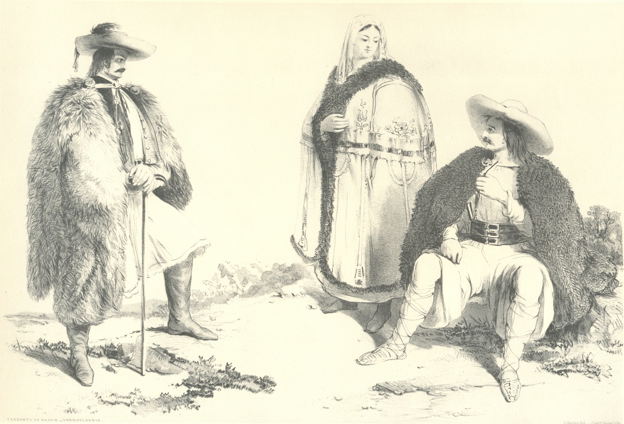 Peasants of Hadad - Transylvania